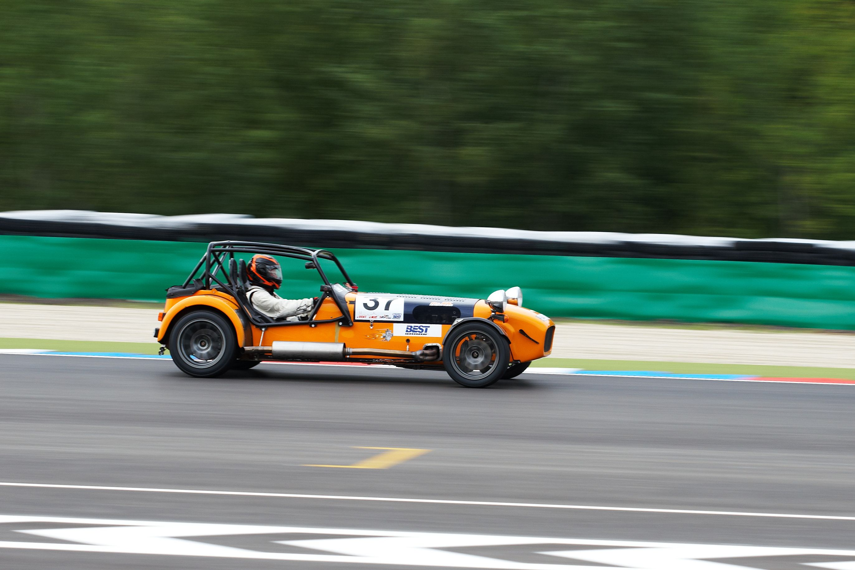 Caterham CSR during 12h Le Brno race Česky: Caterham CSR při závodu 12h Le Brno